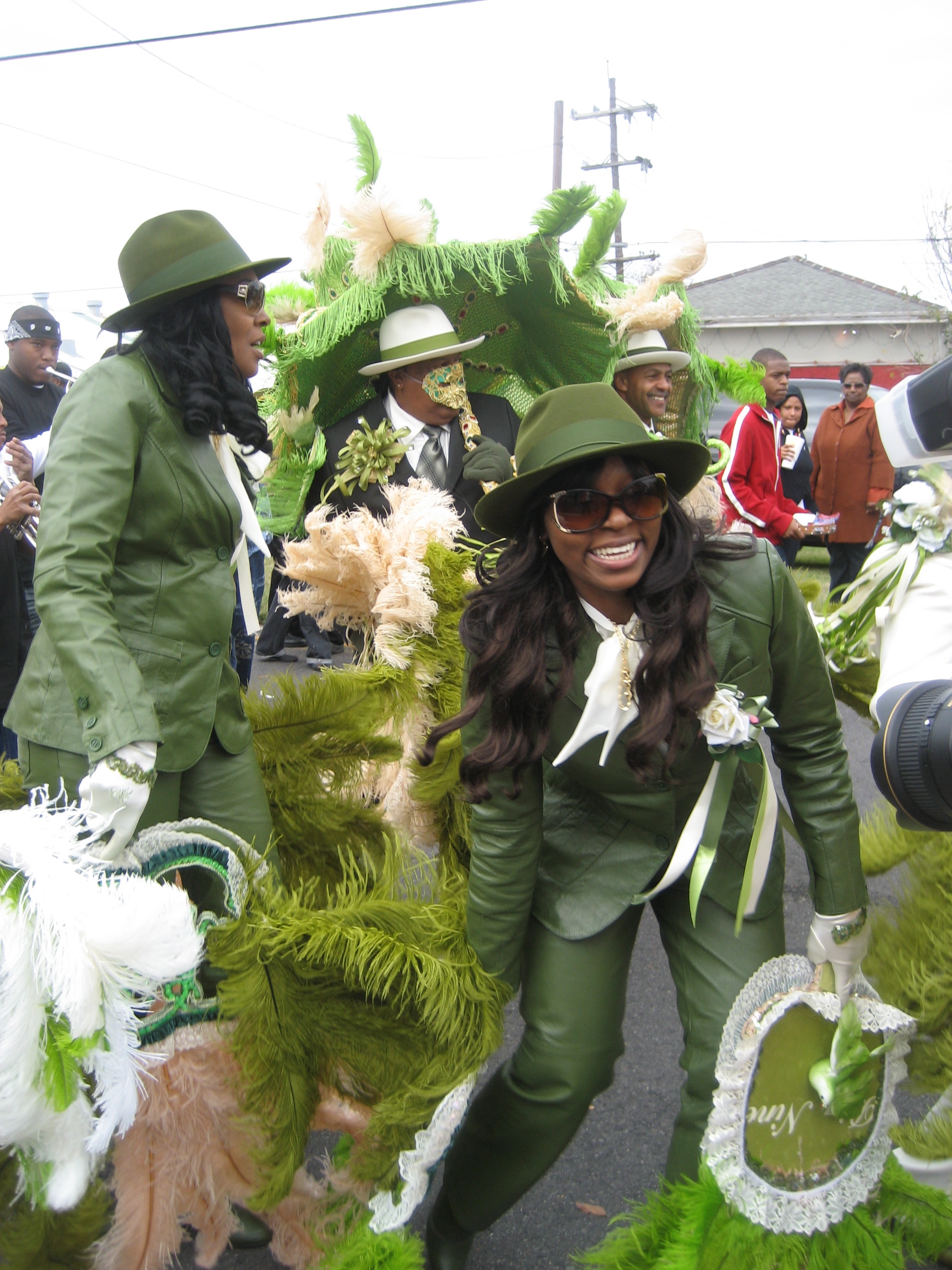 New Orleans: "Big 9" parade on St. Claude Avenue